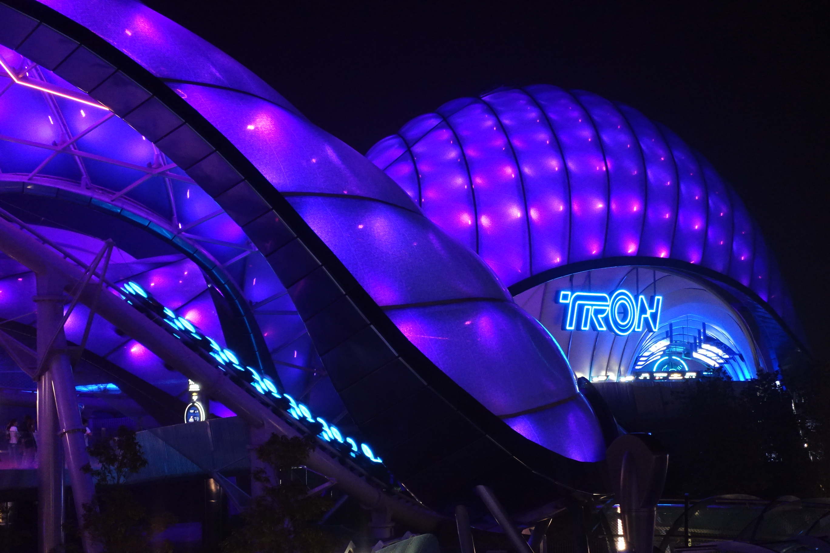 Tron Lightcycles Power Run